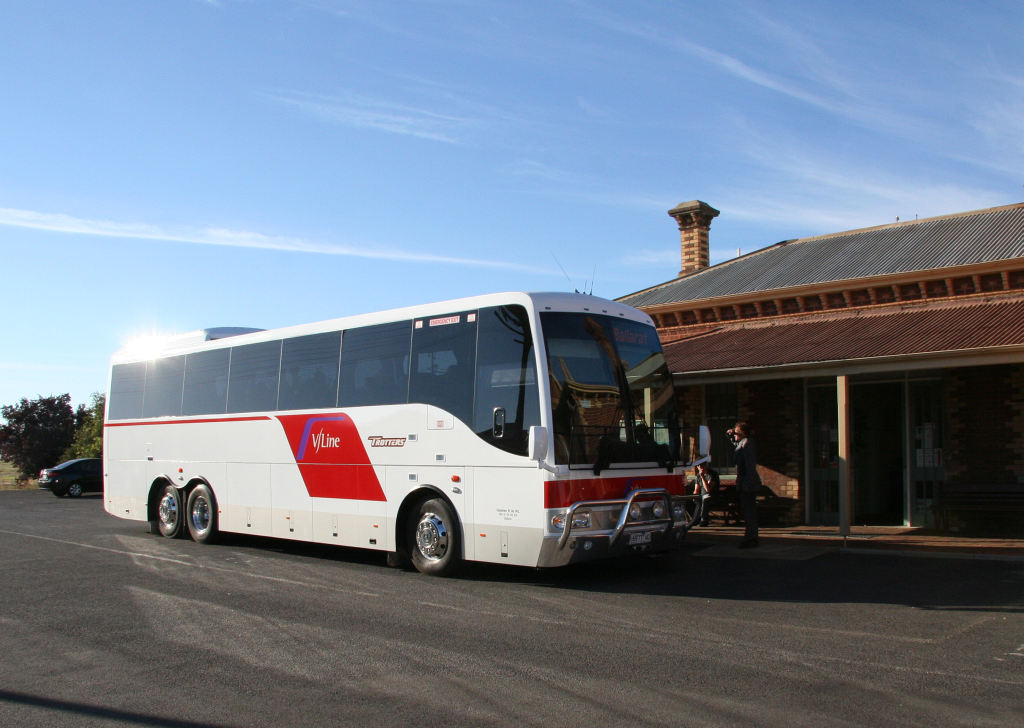 Trotters coach number 22 in new V/Line livery at Stawell station, 6977AO, Coach Design bodied Mercedes-Benz O500RF-3